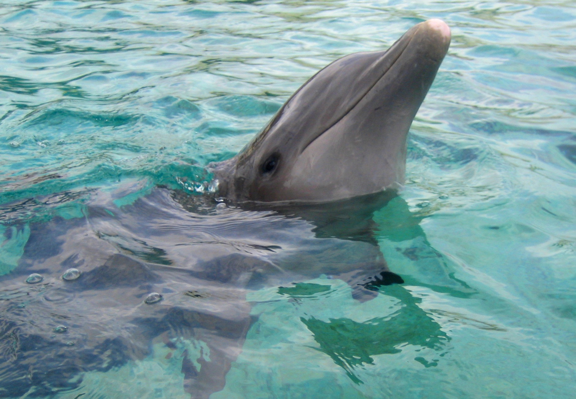 Delphi at Cozumel